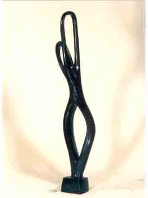 the dancer